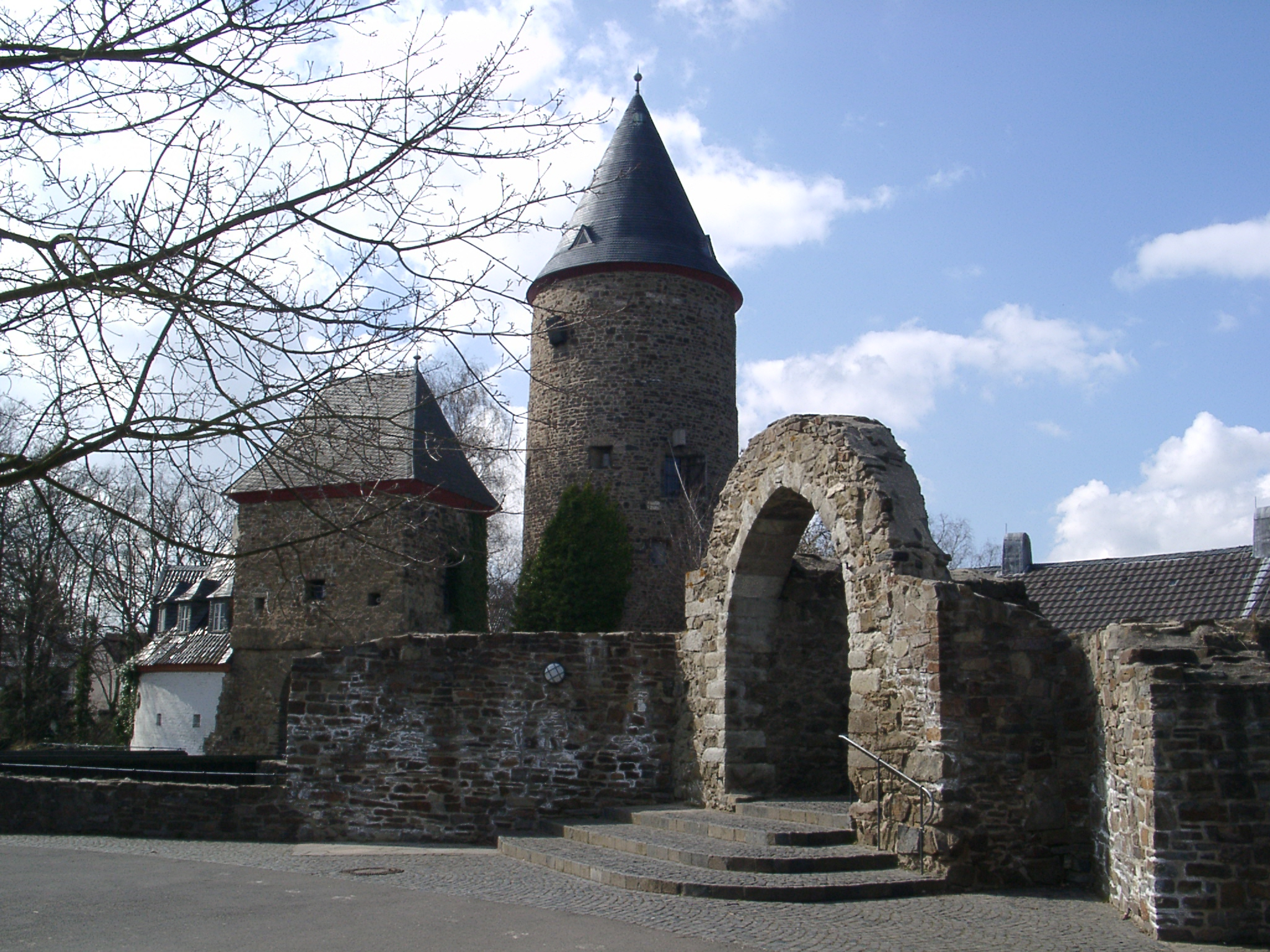 At Hexenturm in Rheinbach, Germany.